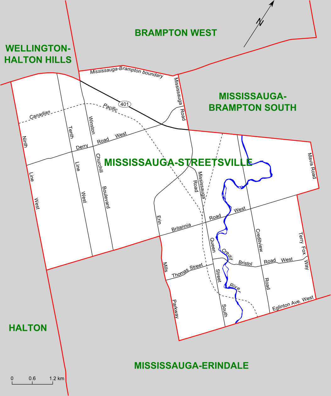 Map of the Ontario federal and provincial riding of Mississauga-Streetsville. Boundaries defined in 2003, and adopted federally in 2004 and provincially in 2007.